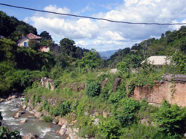 San Juancito, former mining village in the hills close to Tegucigalpa, Honduras. The U.S. Embassy for Honduras used to be in this place, due to the richness of the silver mines.